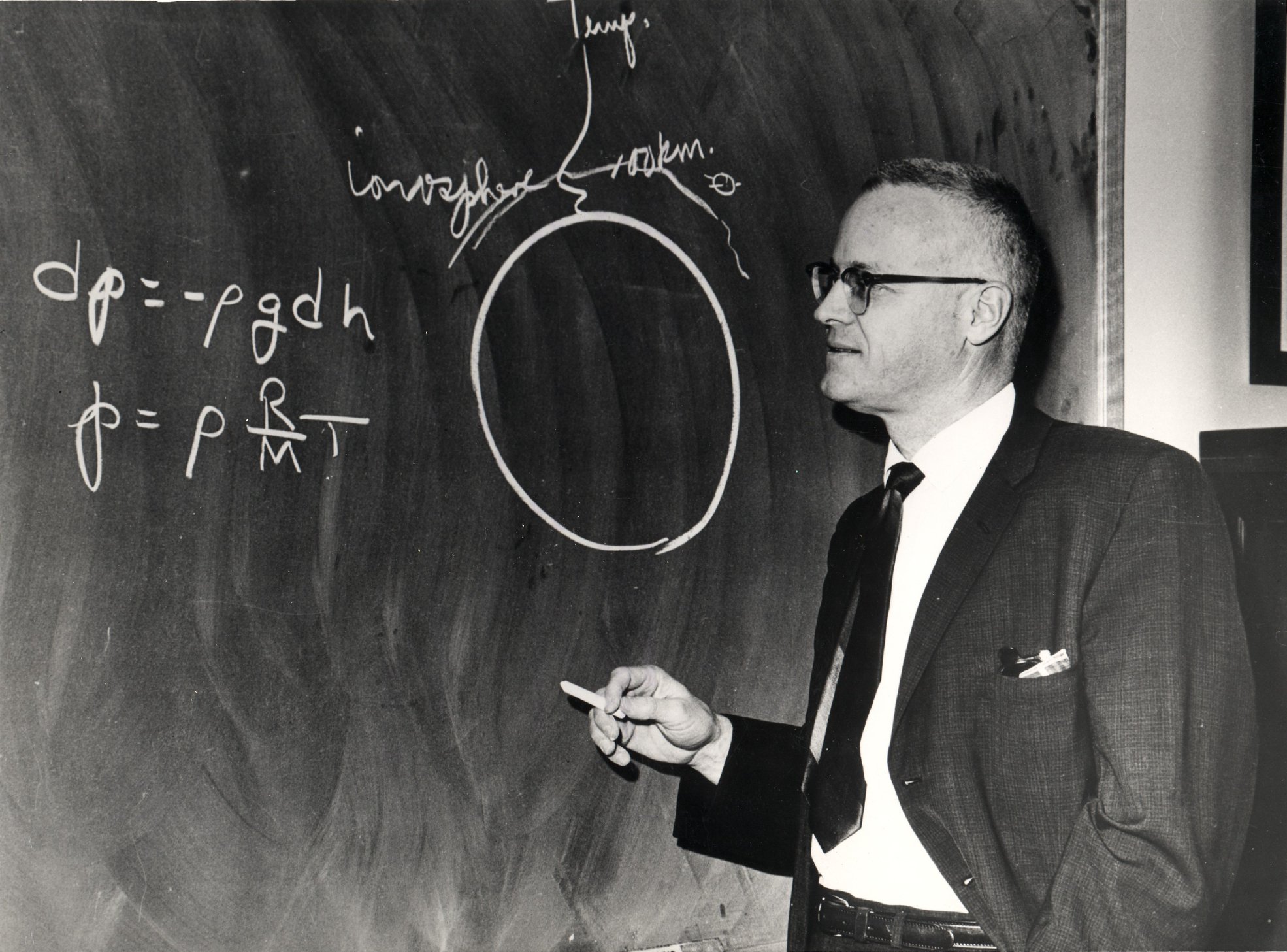 Portrait of Homer E. Newell Jr., mathematician and NASA administrator, explaining some aspect of the changes in air density, pressure, and temperature relative to height in the ionosphere.